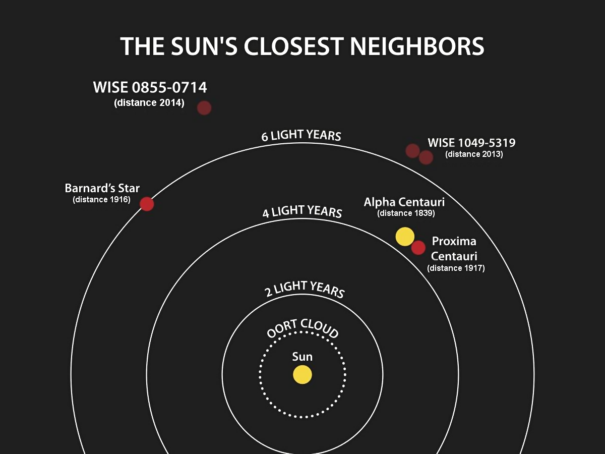 Welcome to the Sun's Neighborhood - This diagram illustrates the locations of the star systems closest to the sun. The year when the distance to each system was determined is listed after the system's name. NASA's Wide-field Infrared Survey Explorer, or WISE, found two of the four closest systems: the binary brown dwarf WISE 1049-5319 and the brown dwarf WISE J085510.83-071442.5. NASA's Spitzer Space Telescope helped pin down the location of the latter object. The closest system to the sun is a trio of stars that consists of Alpha Centauri, a close companion to it and Proxima Centauri.